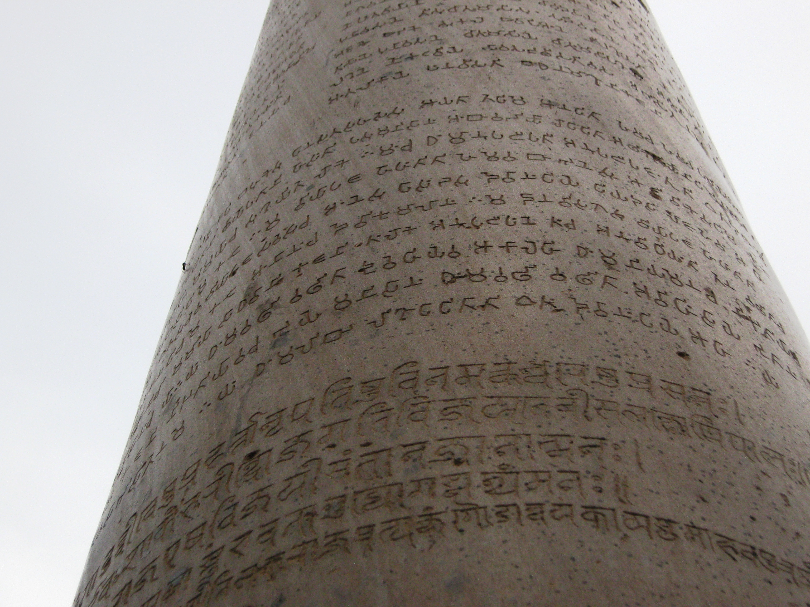 Urdu and several other language writings on Ashoka Pillar at Feroze Shah Kotla, Delhi